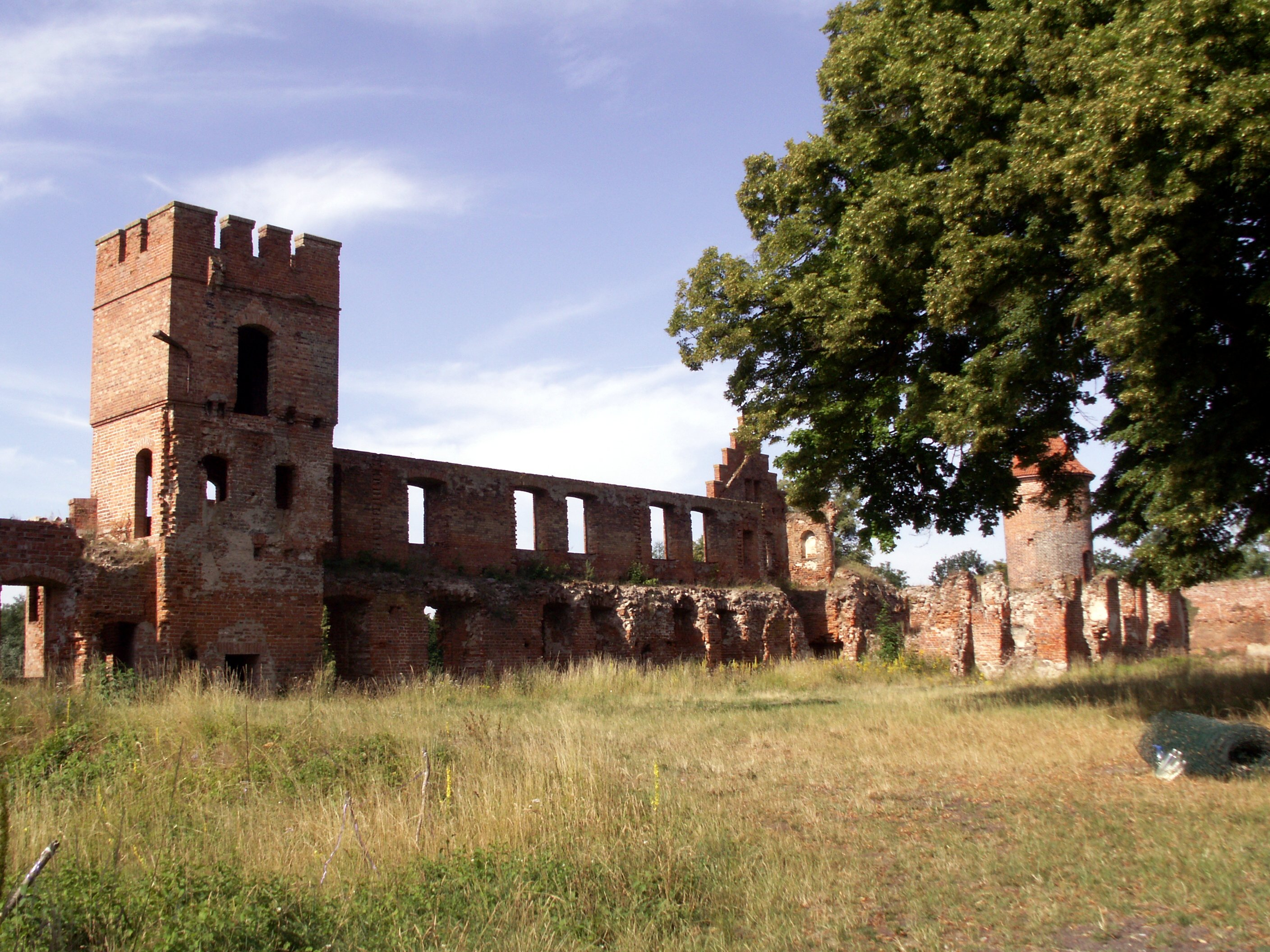 Szymbark Castle